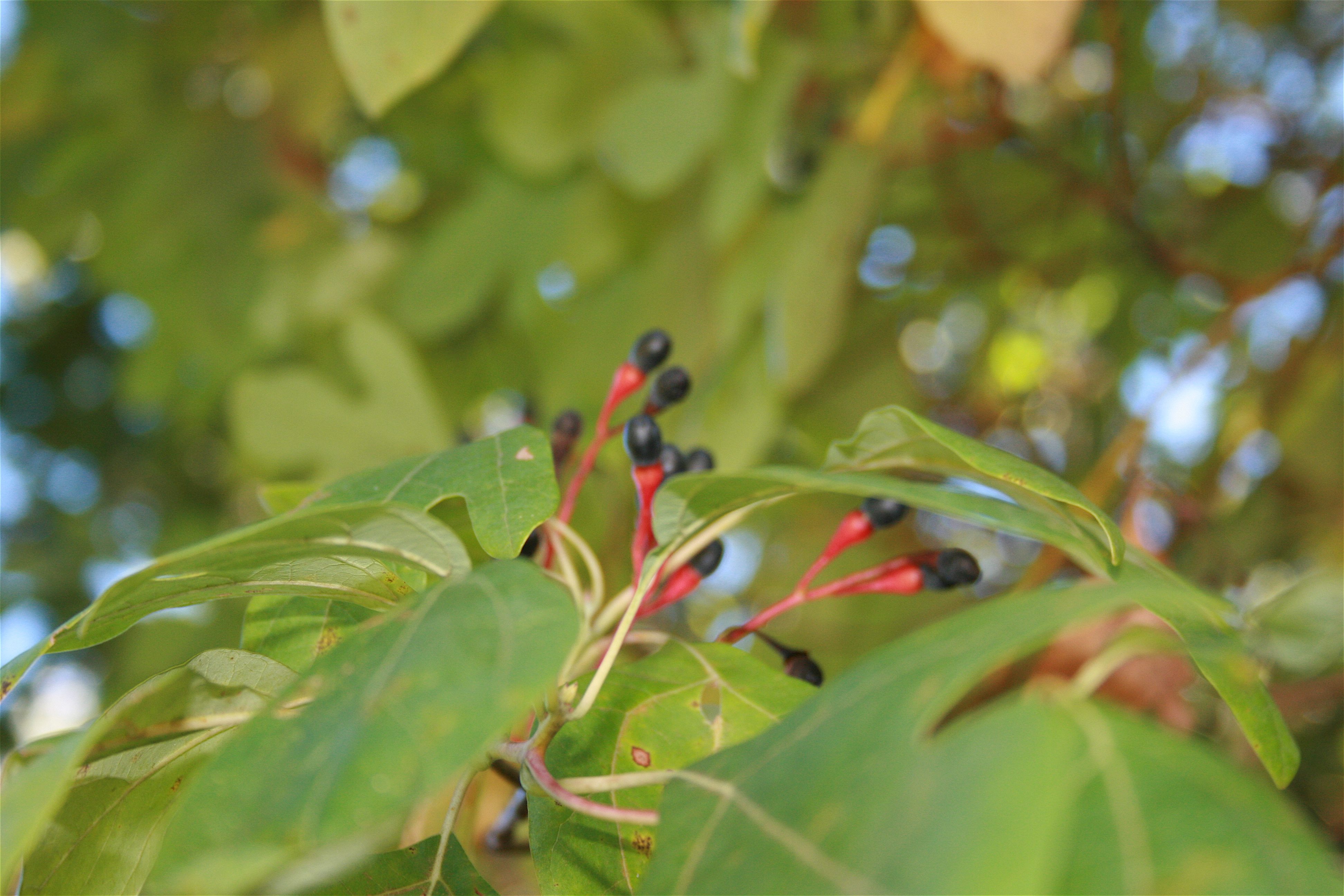 White Sassafras (Sassafras albidum) on the Al Sabo Preserve in Texas Township, MI.